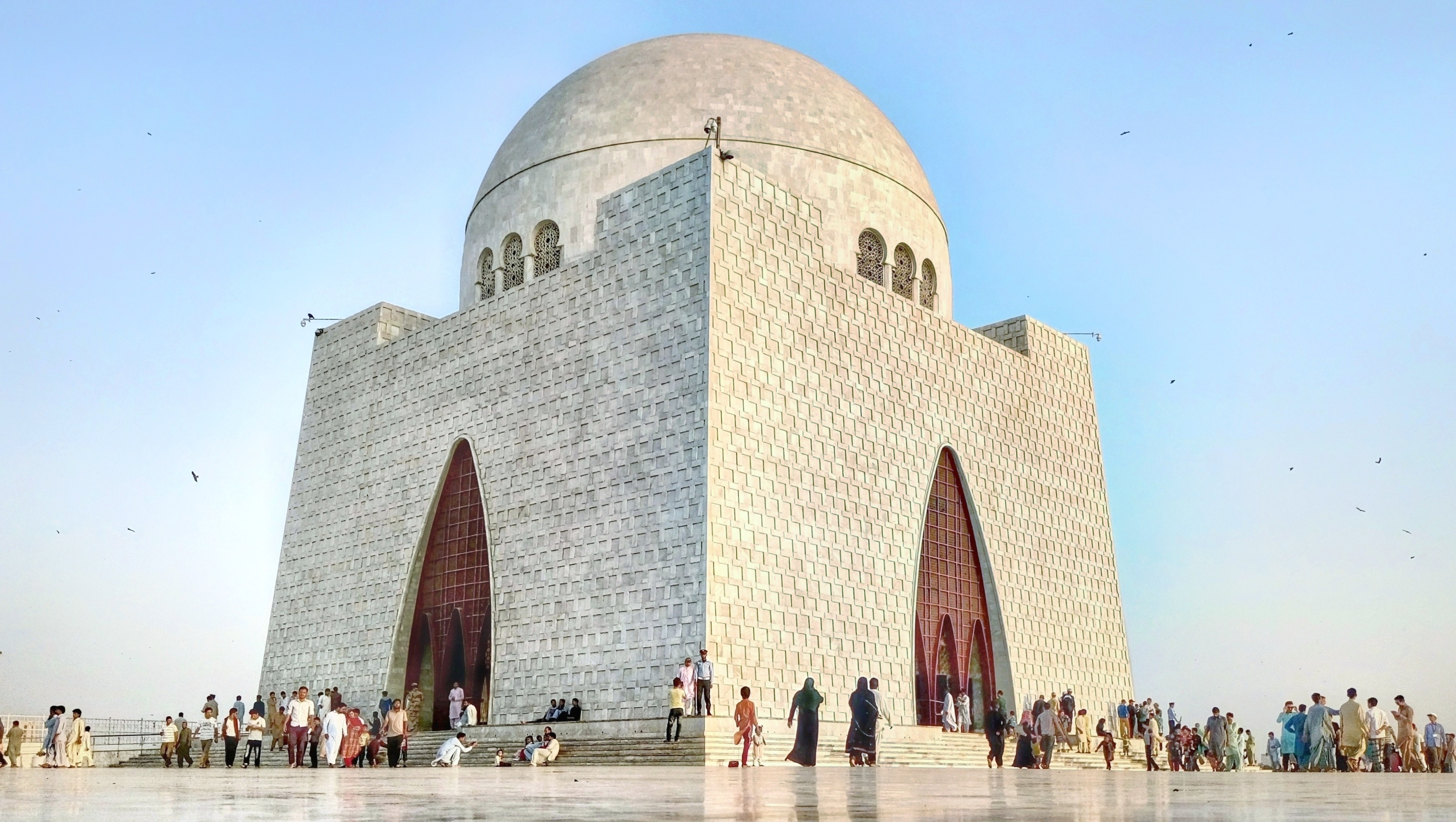 Mazar Quaid (Tomb of Muhammad Ali Jinnah) The Founder of Pakistan